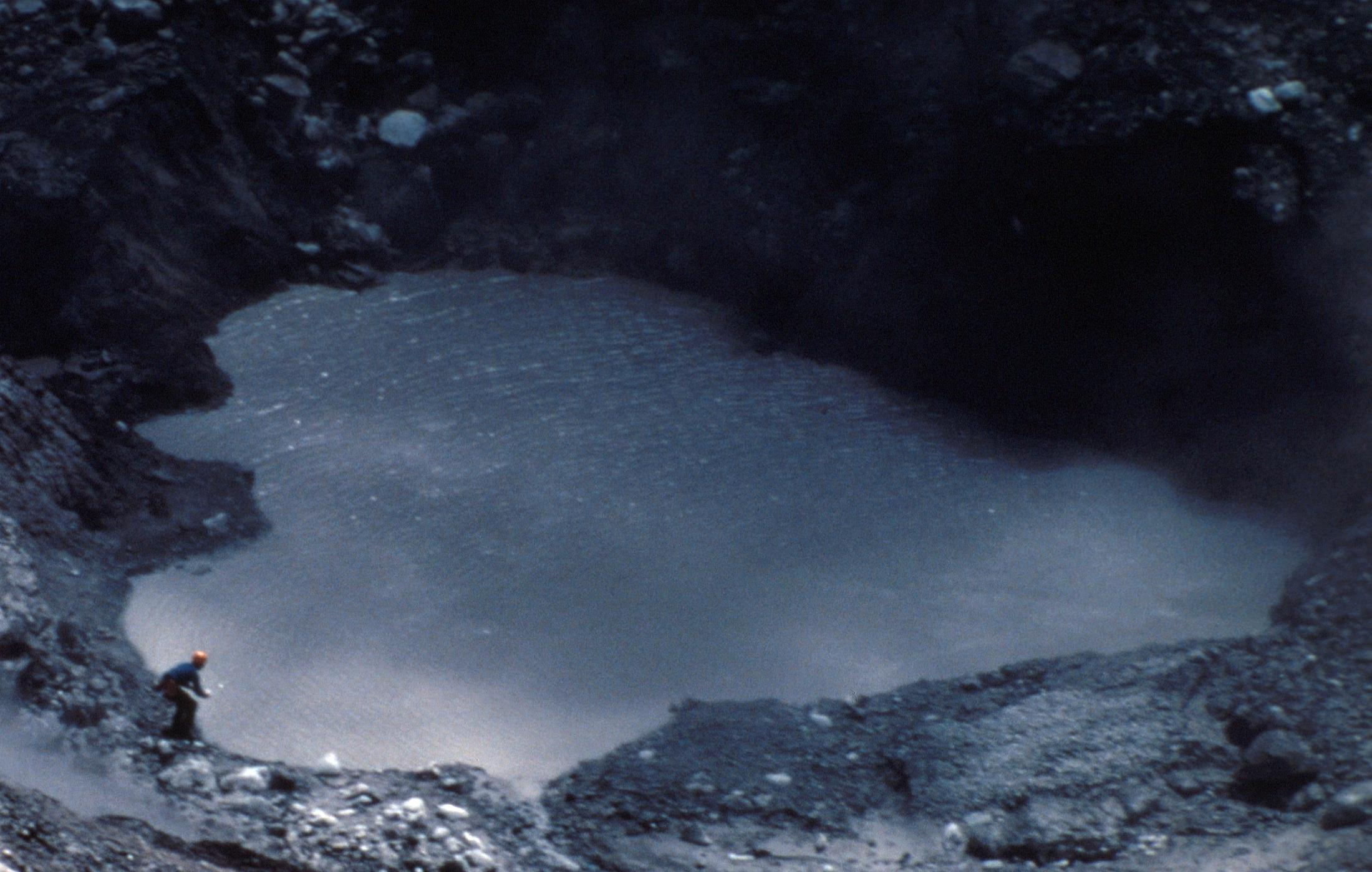 Dave Johnston collecting sample from Mount St. Helens crater lake. Crop of original photo, which was 200 mm telephoto from west rim. Original photo by R.P. Hoblitt. Skamania County, Washington. April 30, 1980.